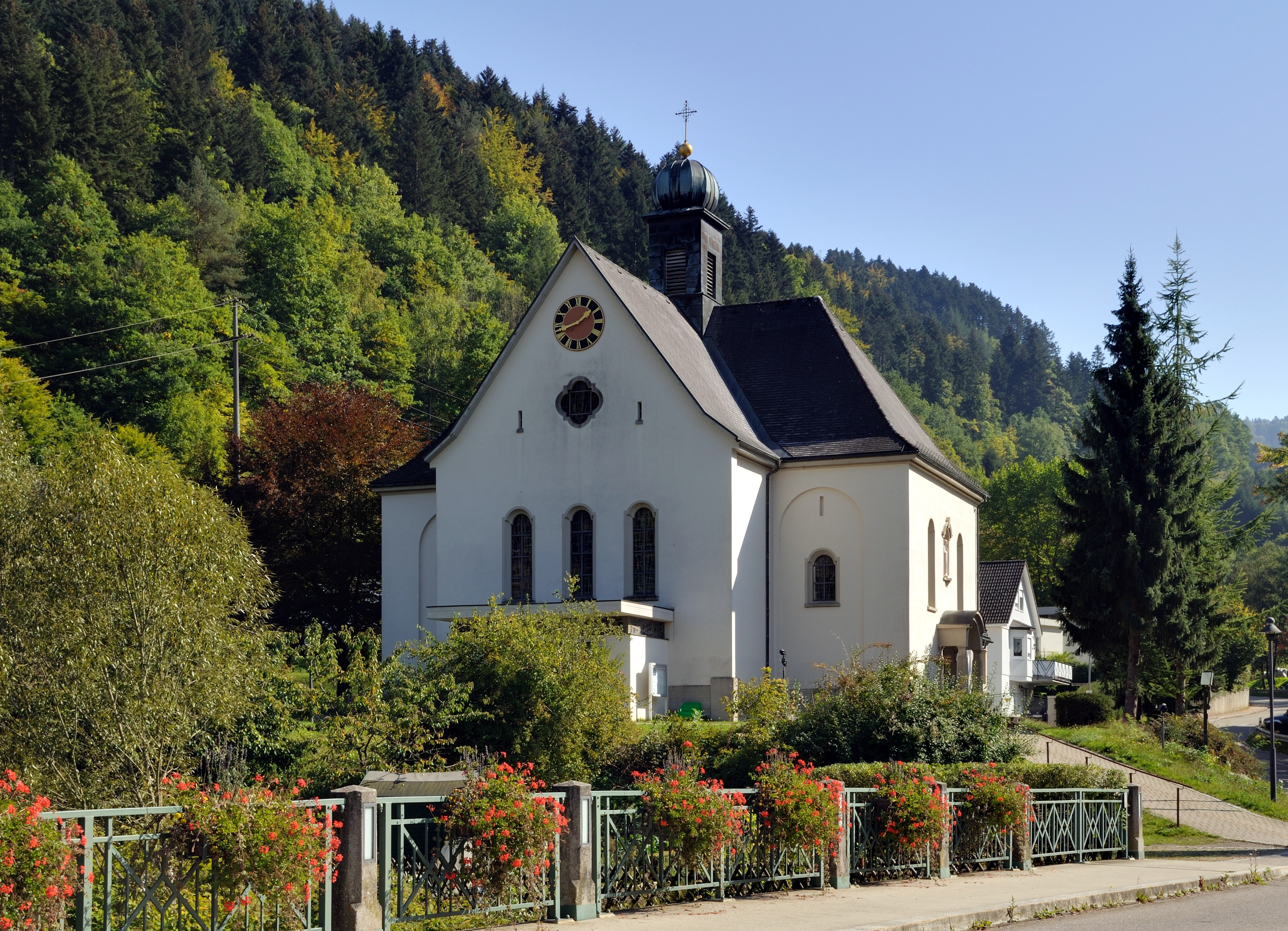 Zell im Wiesental: Church of the Assumption in Atzenbach